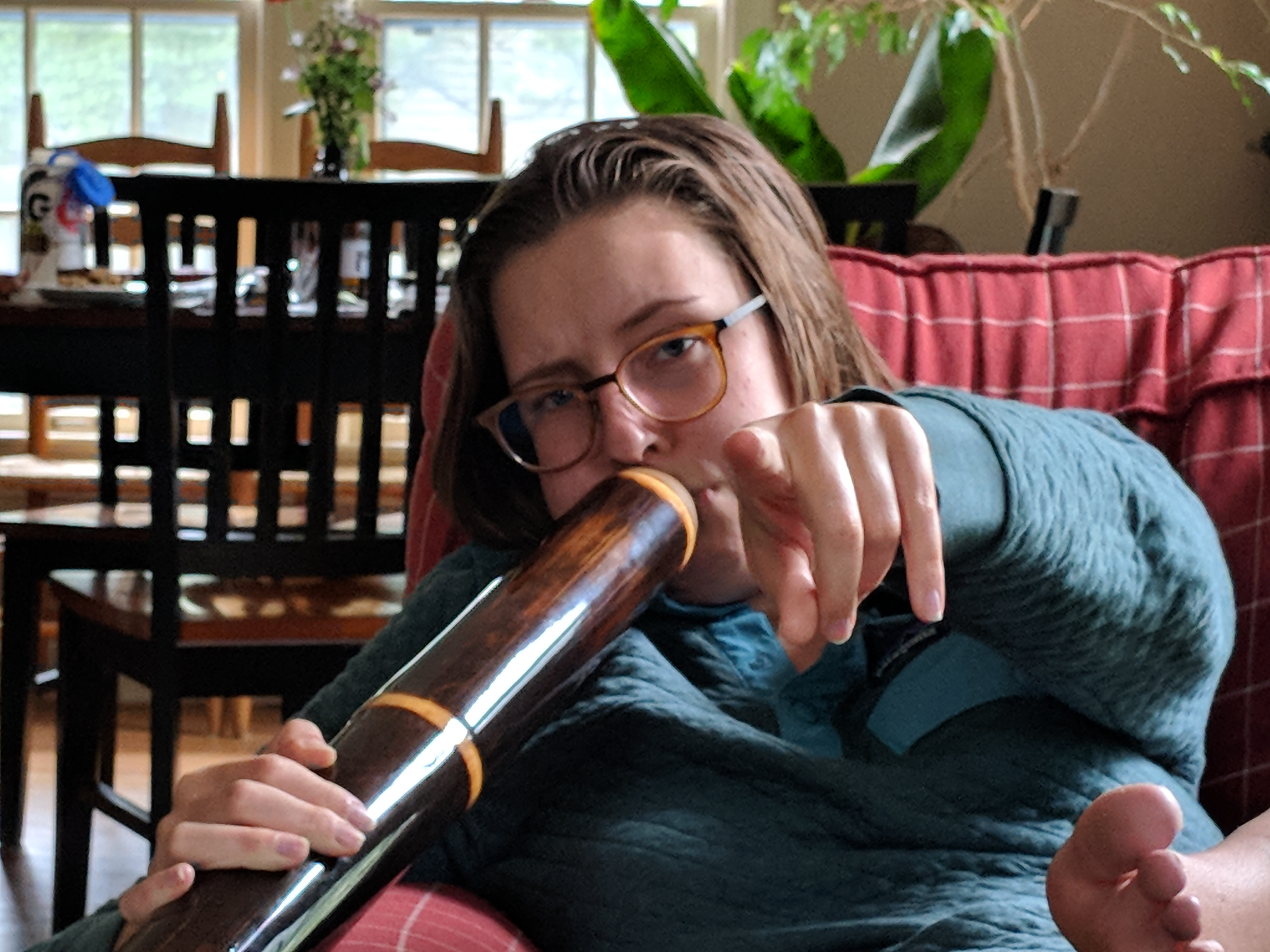 Amateur Didgeridoo Player Using Bamboo Instrument